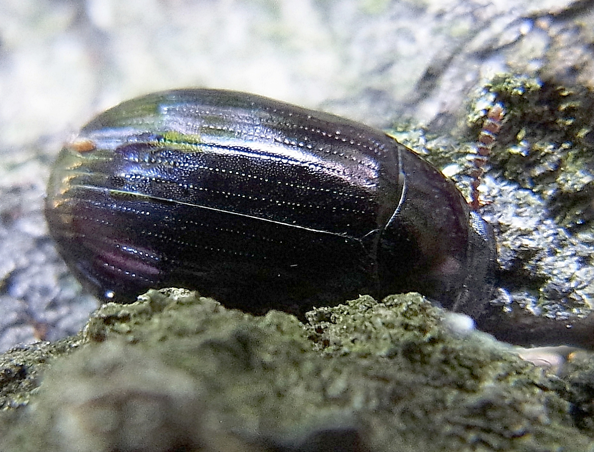 Platydema violaceum from Hungary, Gerencse-mountains near Bikolpuszta